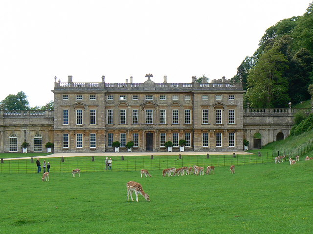 Dyrham Park, South Gloucestershire- east front